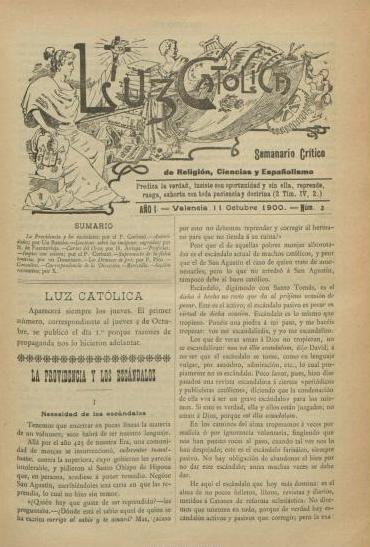 La Luz (newspaper)